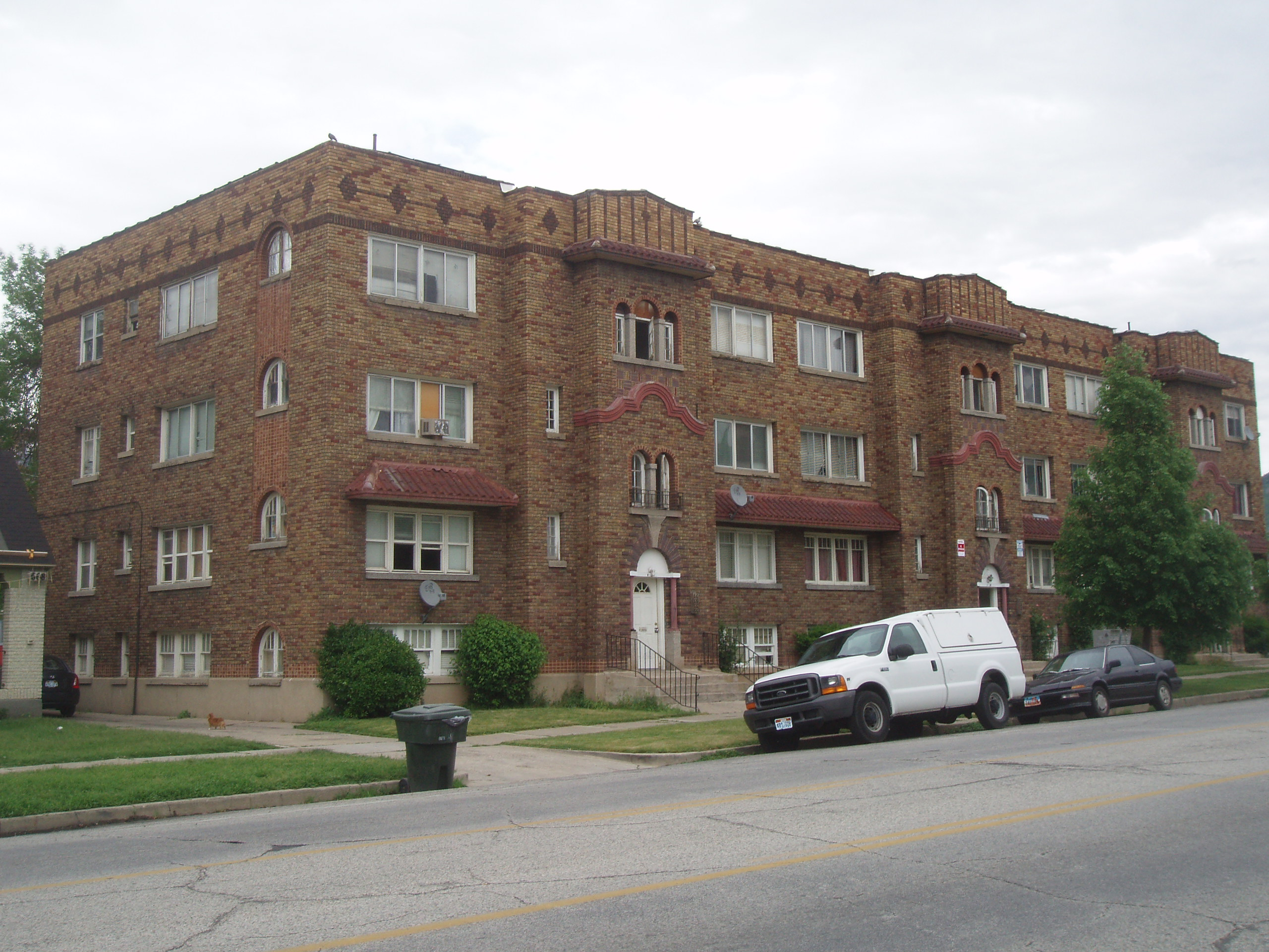 The Ladywood Apartments, a historic building in Ogden, Utah, United States.